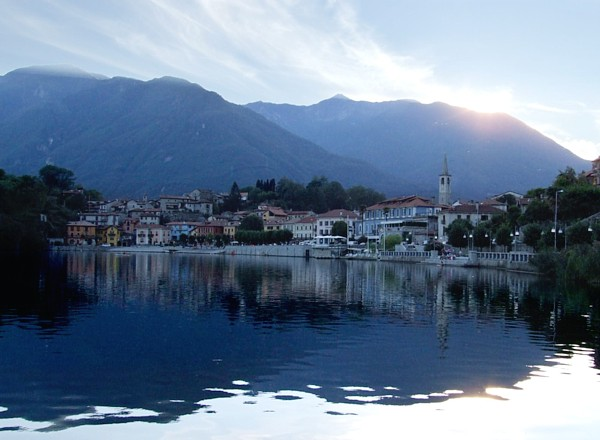 Lago di Mergozzo Picture taken by user Idéfix , august, 2006